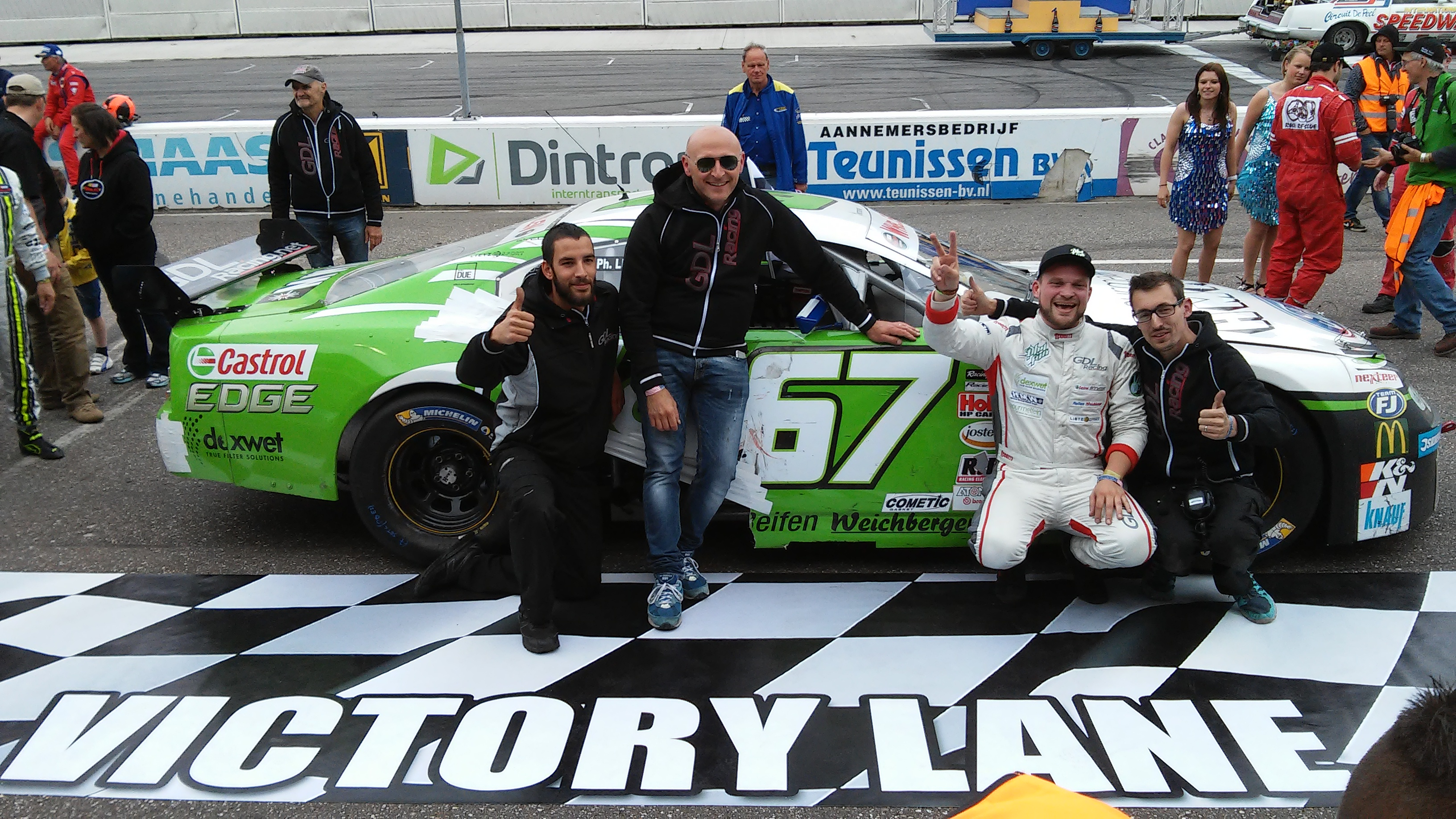 Philipp Lietz and teamboss Gianluca de Lorenzi after Lietz's win in Elite 2 race two at Raceway Venray 2015.